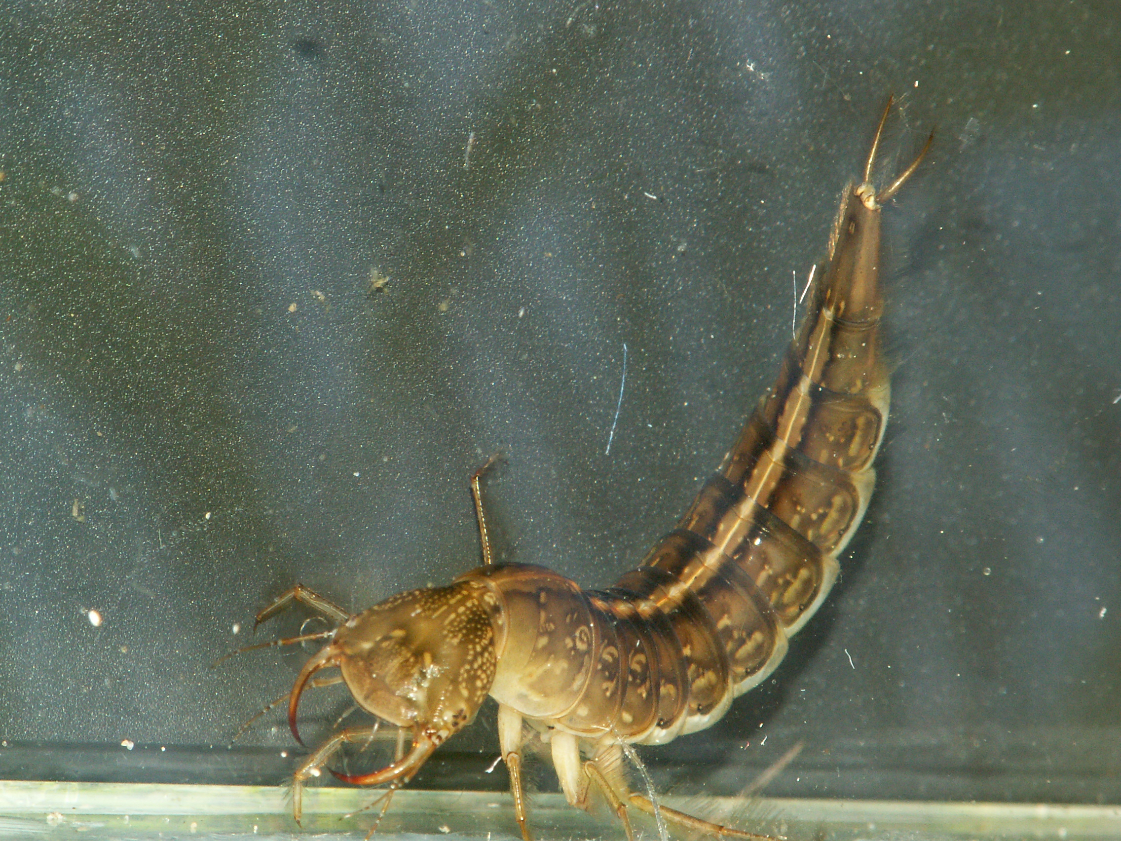 Larva of Dytiscus marginalis? Wolfheze Netherlands